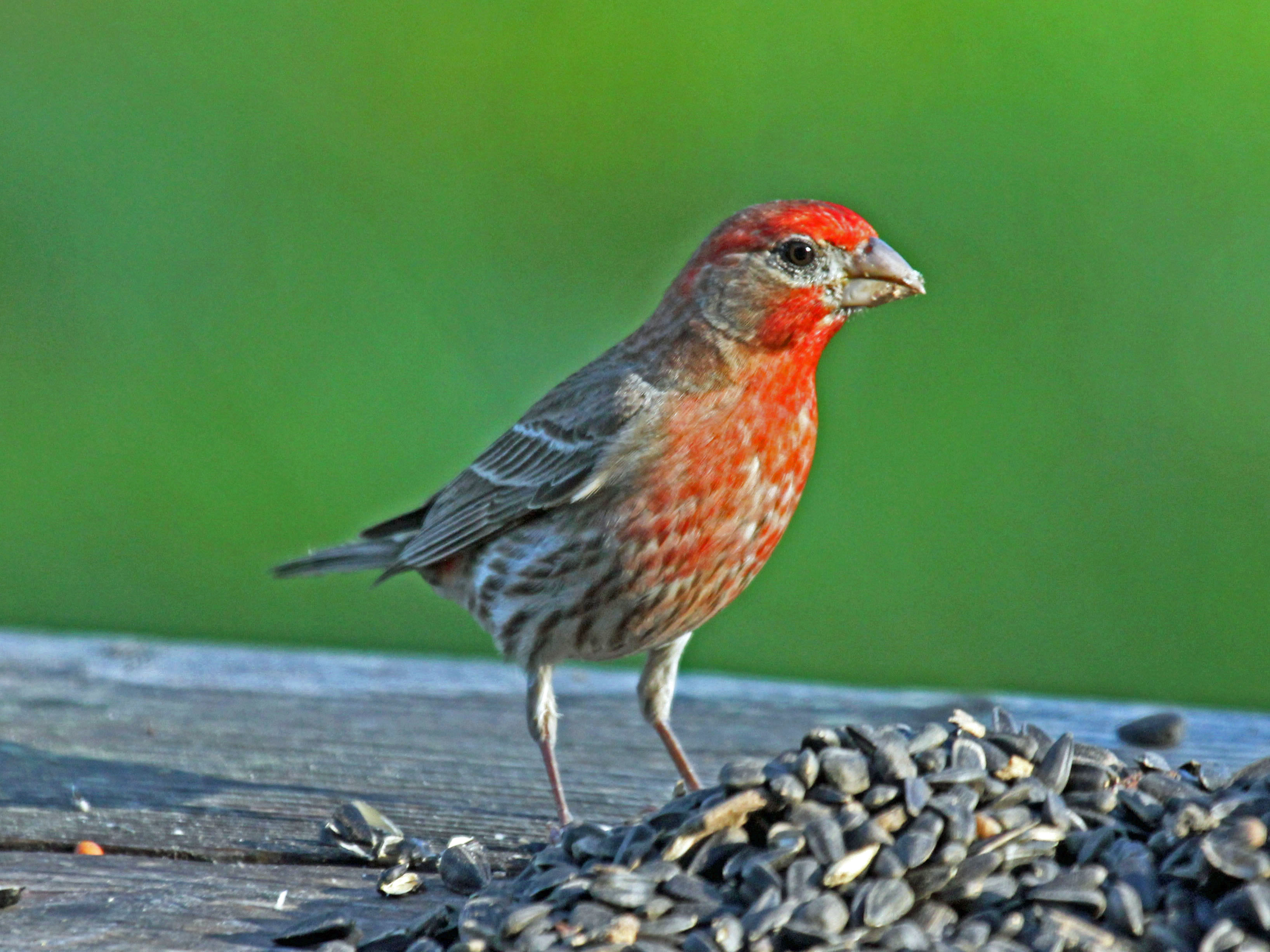 Male House Finch (Carpodacus mexicanus) - Ash, North Carolina